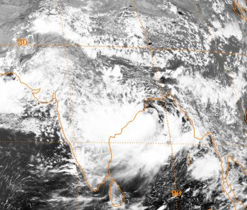 Satellite image of a deep depression over the Bay of Bengal on August 2, 2006